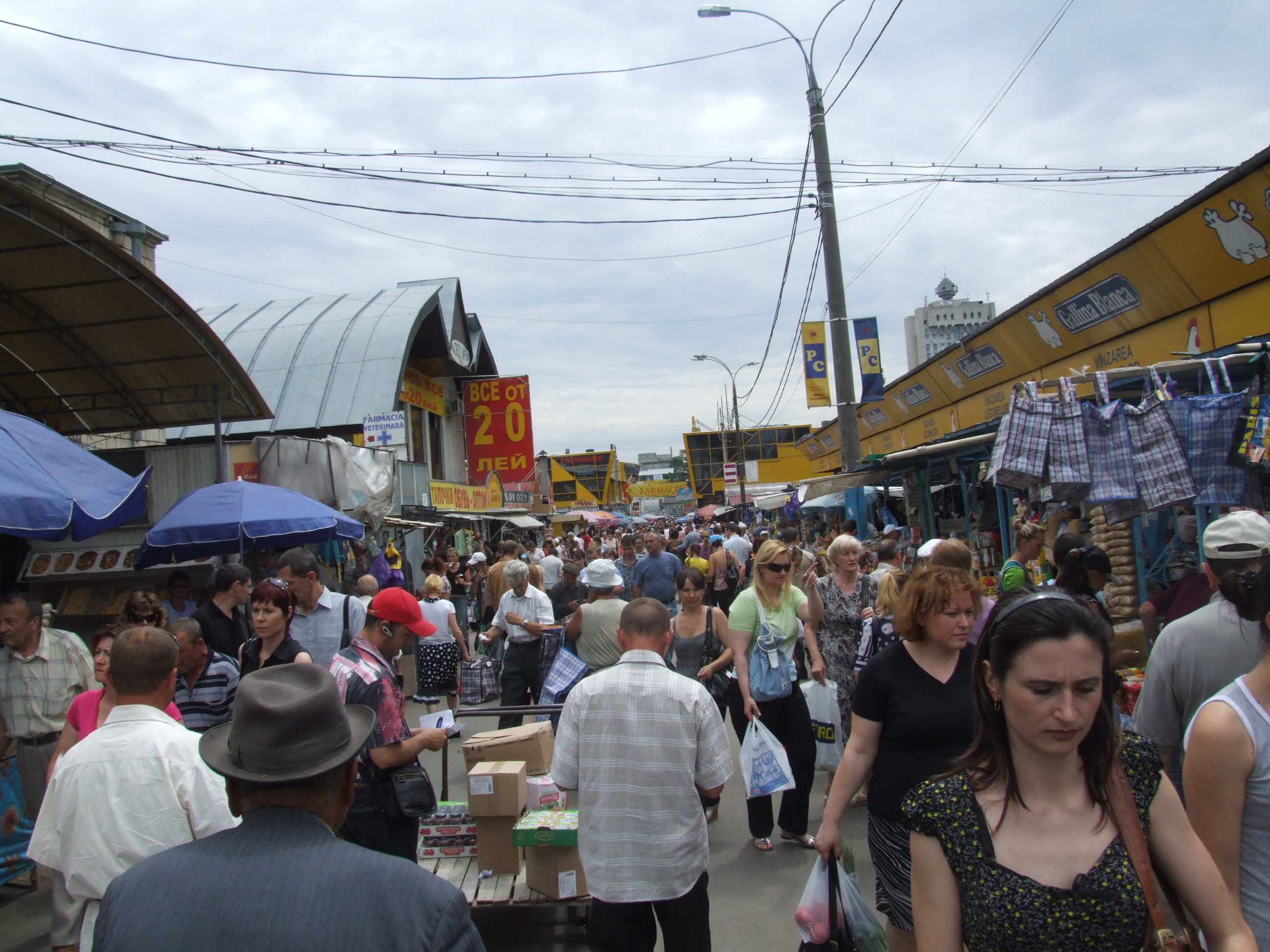 the central market of Chisinau